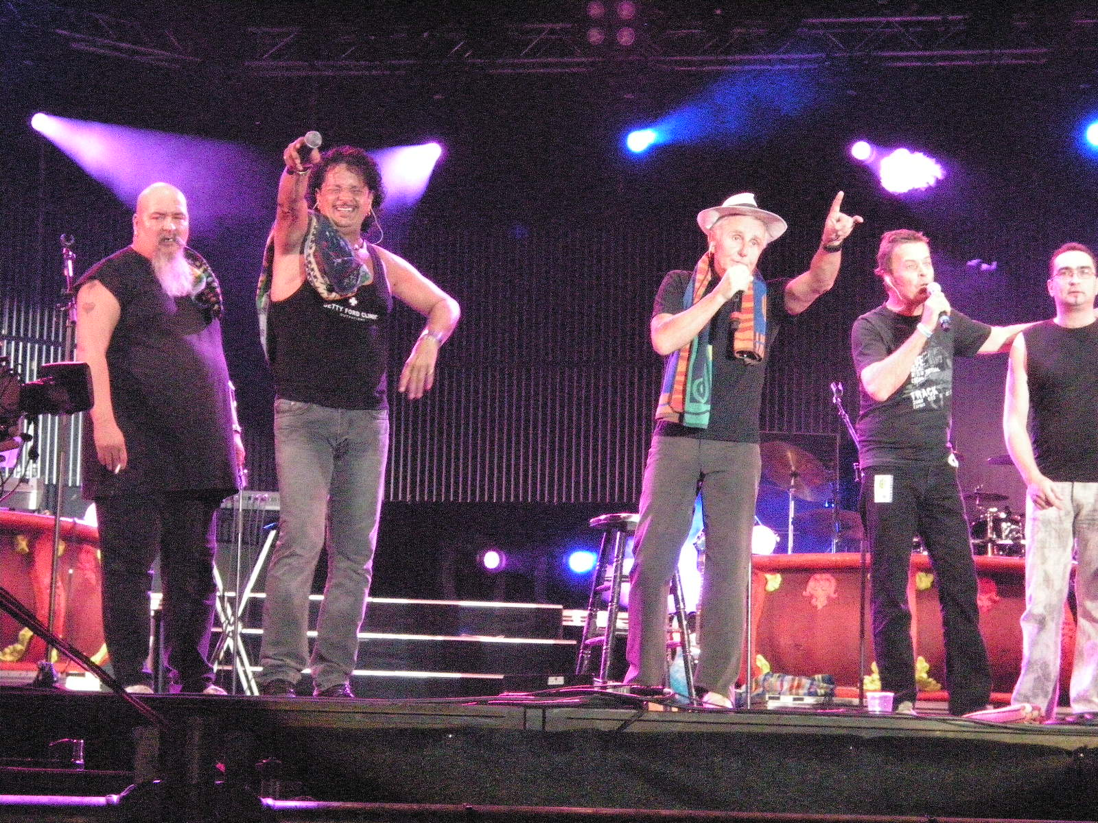 Erste Allgemeine Verunsicherung in Vienna, Austria, Donauinselfest 2008.